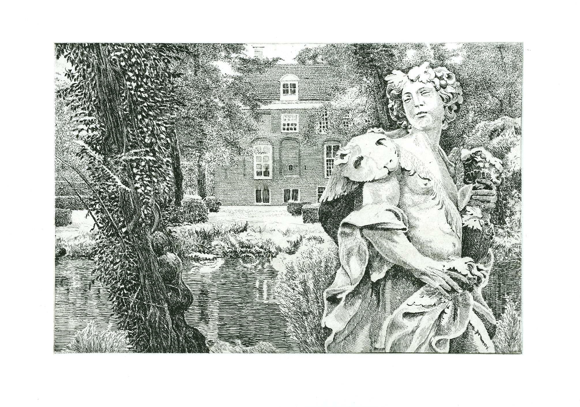 Manpad